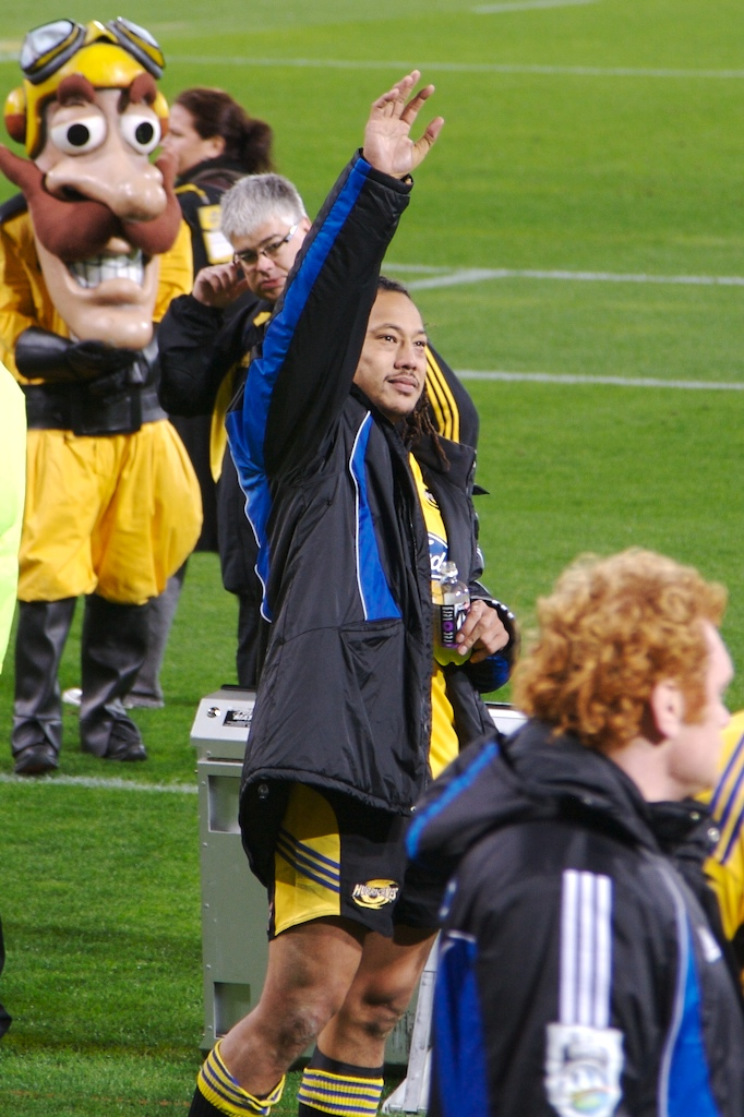 Tana Umaga farewelling fans after his final match for the Wellington Hurricanes